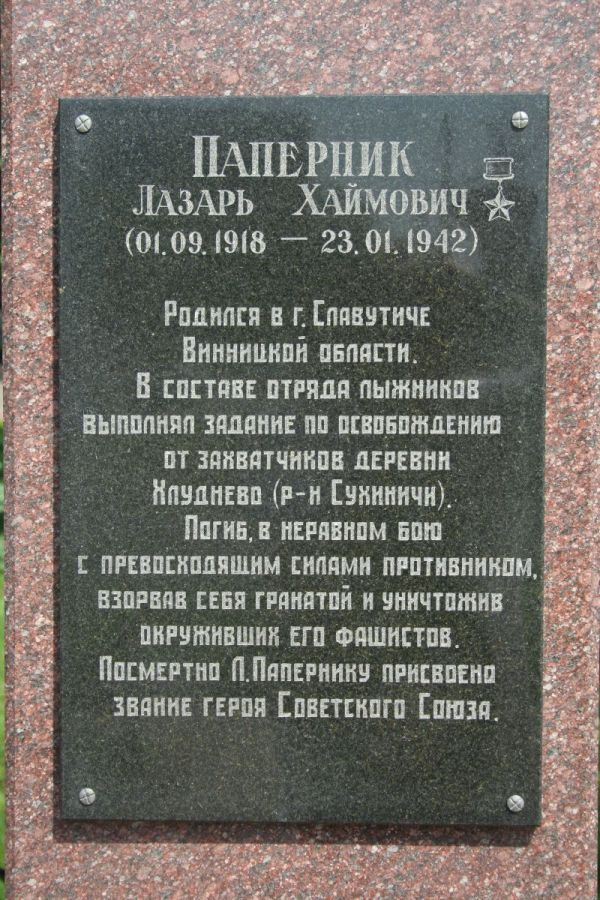 Memorial to Hero of Sovien Union L.H. Papernik, Papernik street, Moscow. Table with description